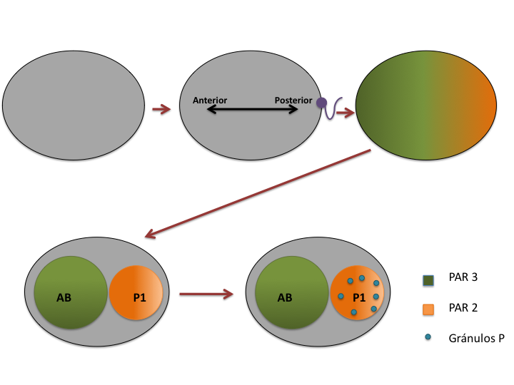 Observe el gradiente y ubicación de las proteínas PAR2 y PAR3, las cuales se distribuyen esencialmente en la células P1 y AB, respectivamente, para formar eje anteroposterior.